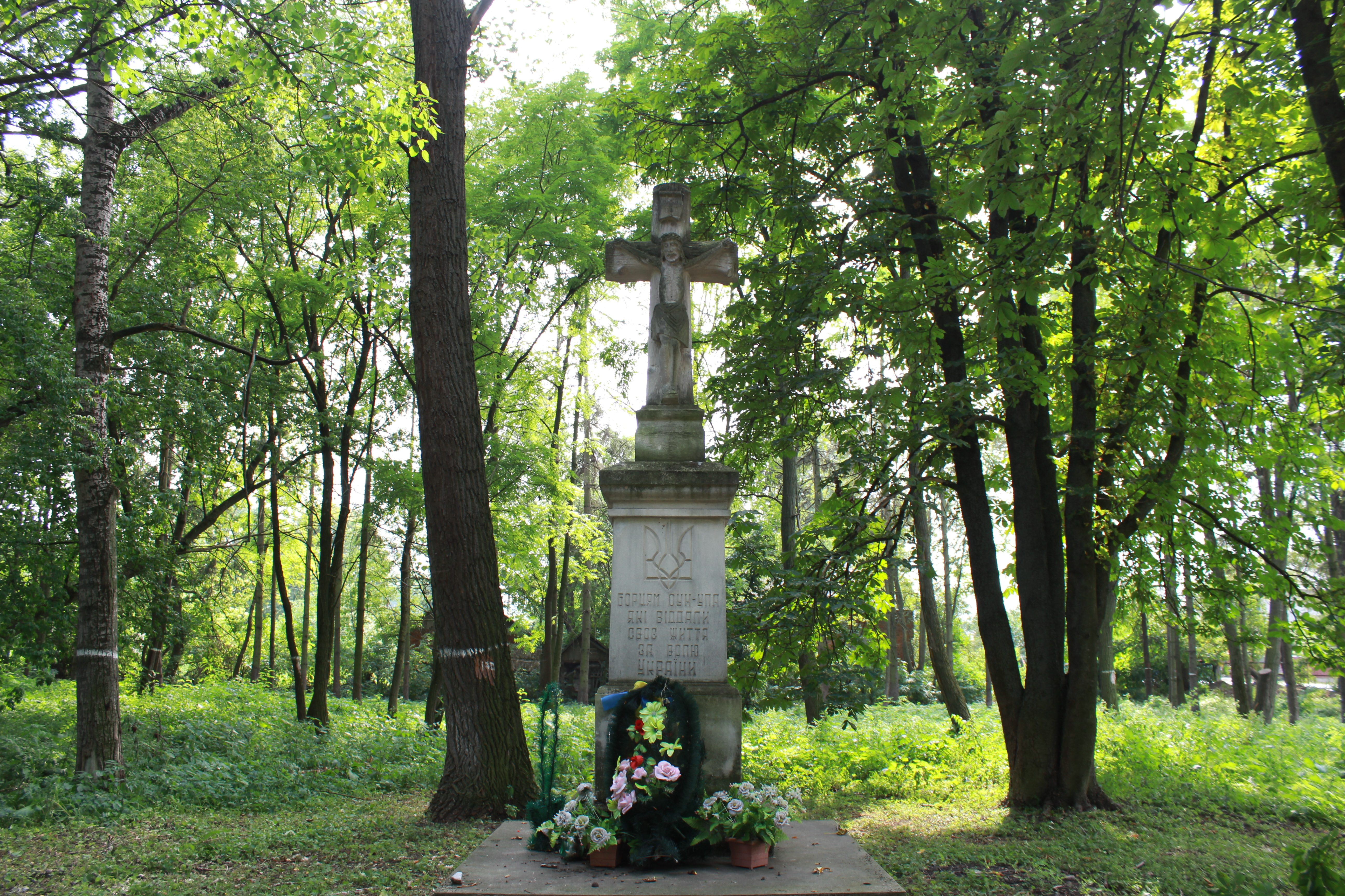 Пам'ятник воїнам ОУН-УПА